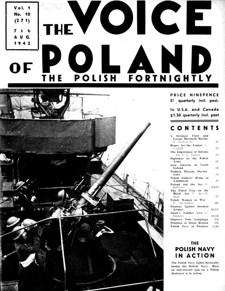 Cover page of The Voice of Poland – The Polish Fortnightly, vol.1 (271), 7 August 1942; Polona.pl